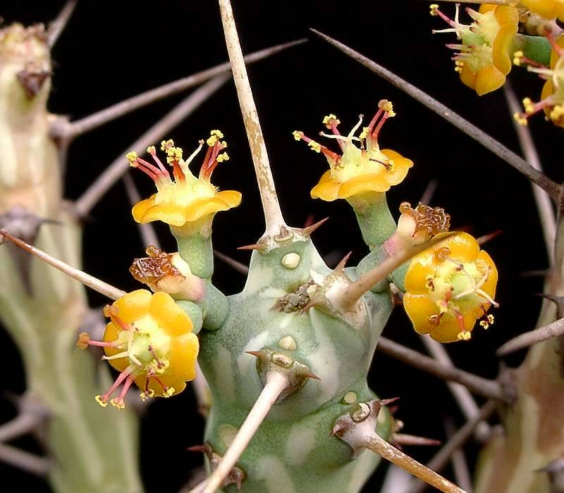 Euphorbia xylacantha